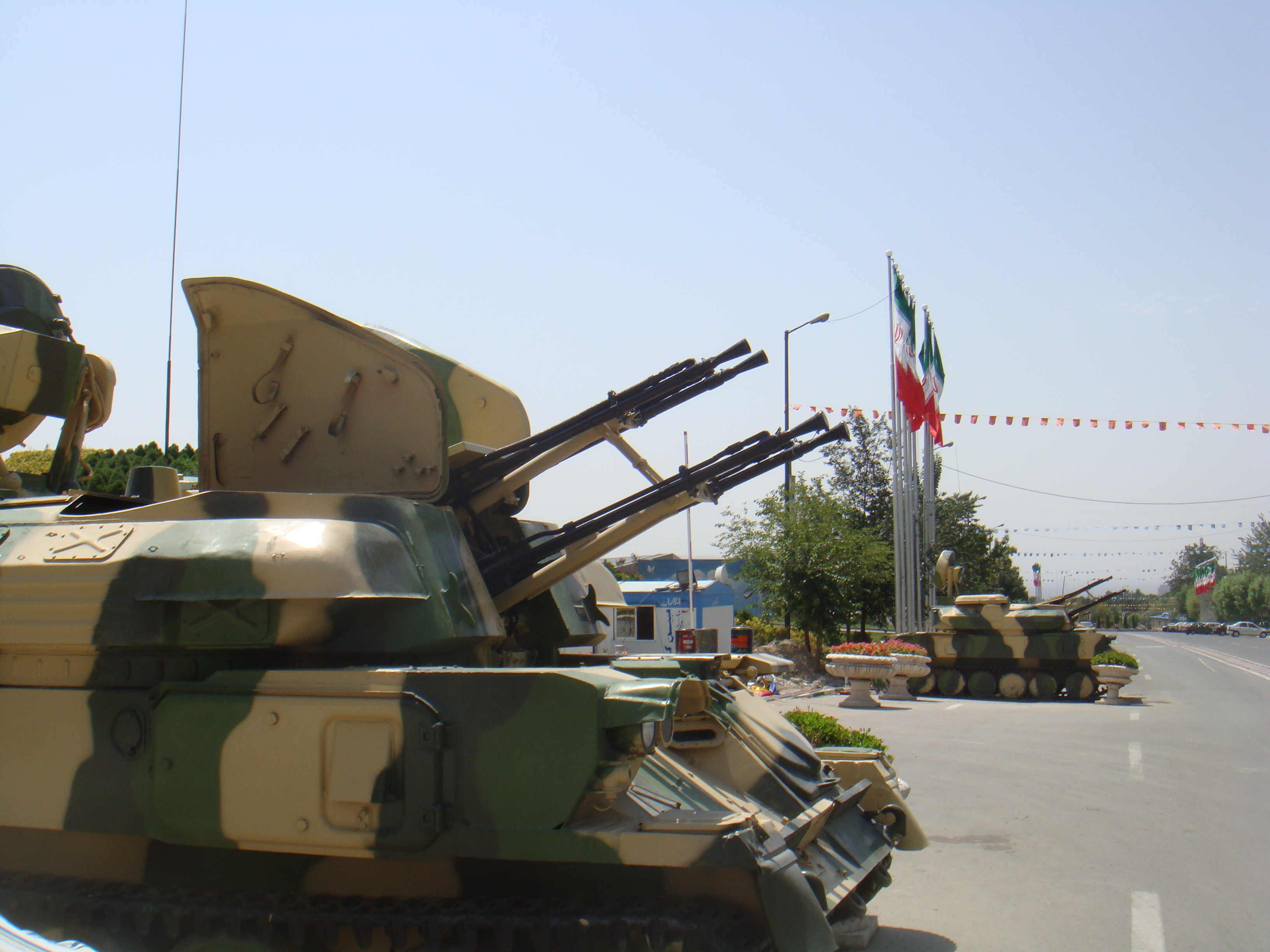 Shilkas Iran Iraq War Museum in Tehran